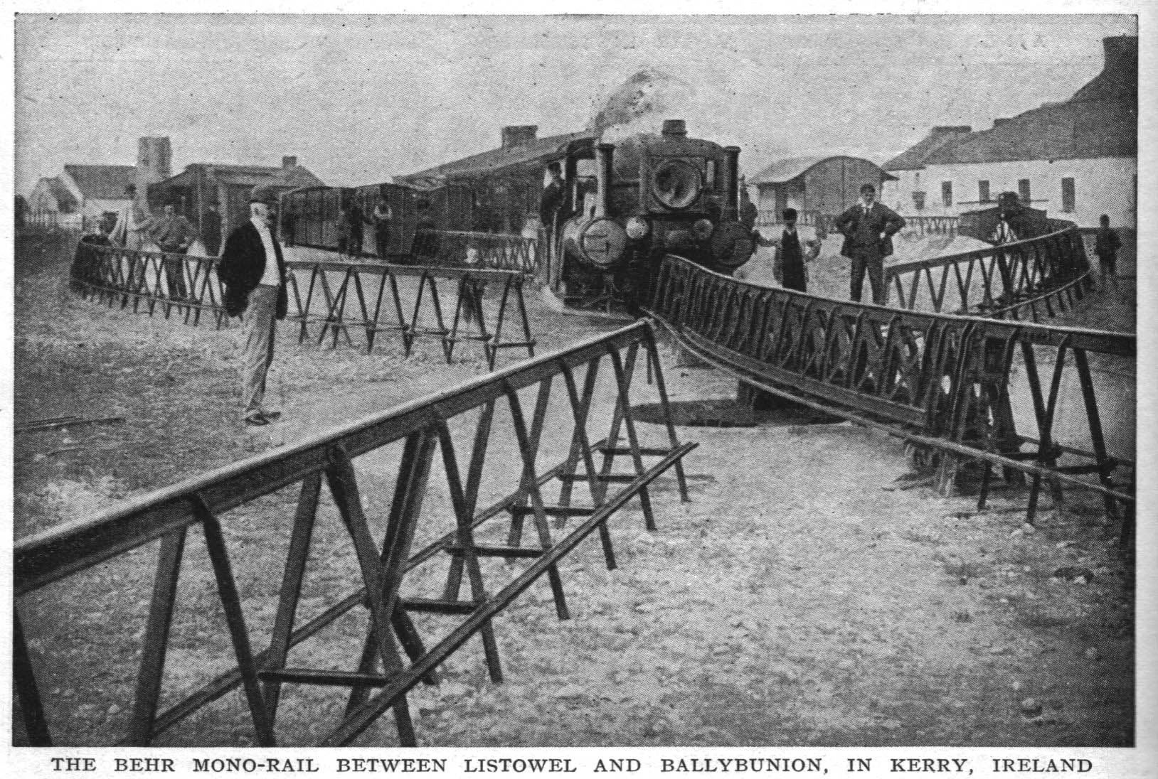 Monorail switch and vehicle